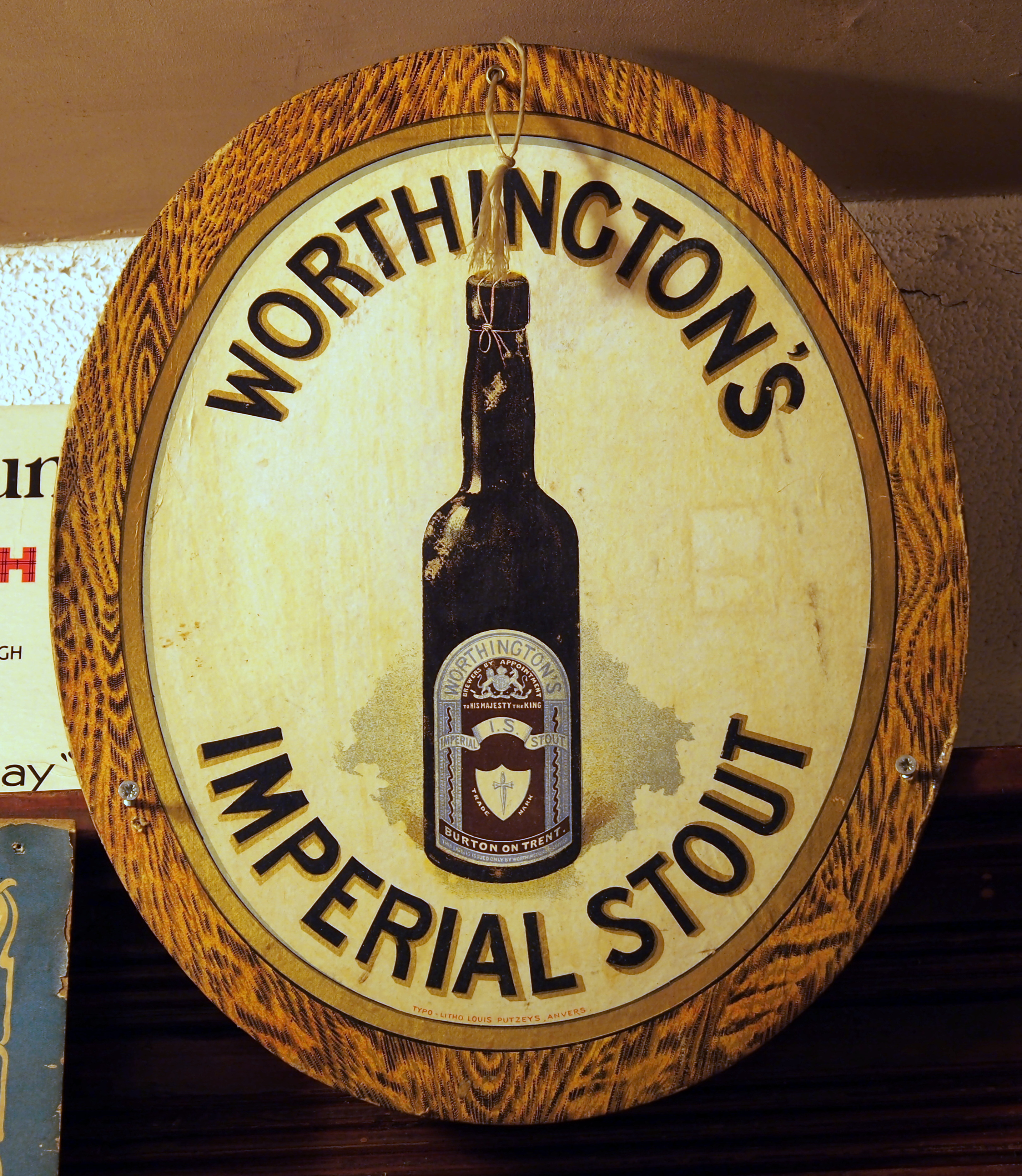 Photographed at the Bierreclame Museum Haagweg, Breda, The Netherlands.